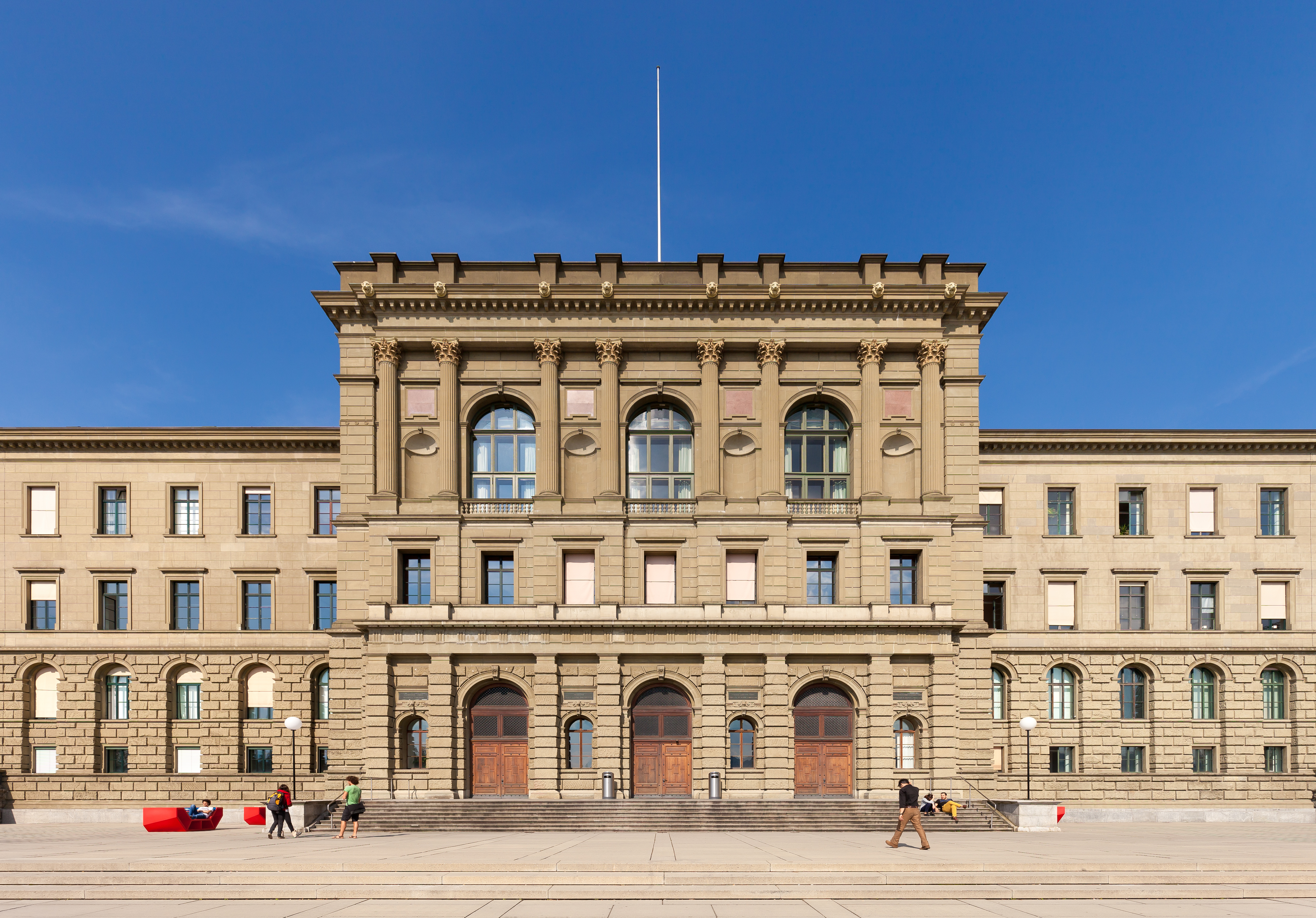 ETH Zurich, main building